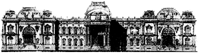 Design for the Capitol of Puerto Rico by Carlos Rafael del Valle Zeno, 1907